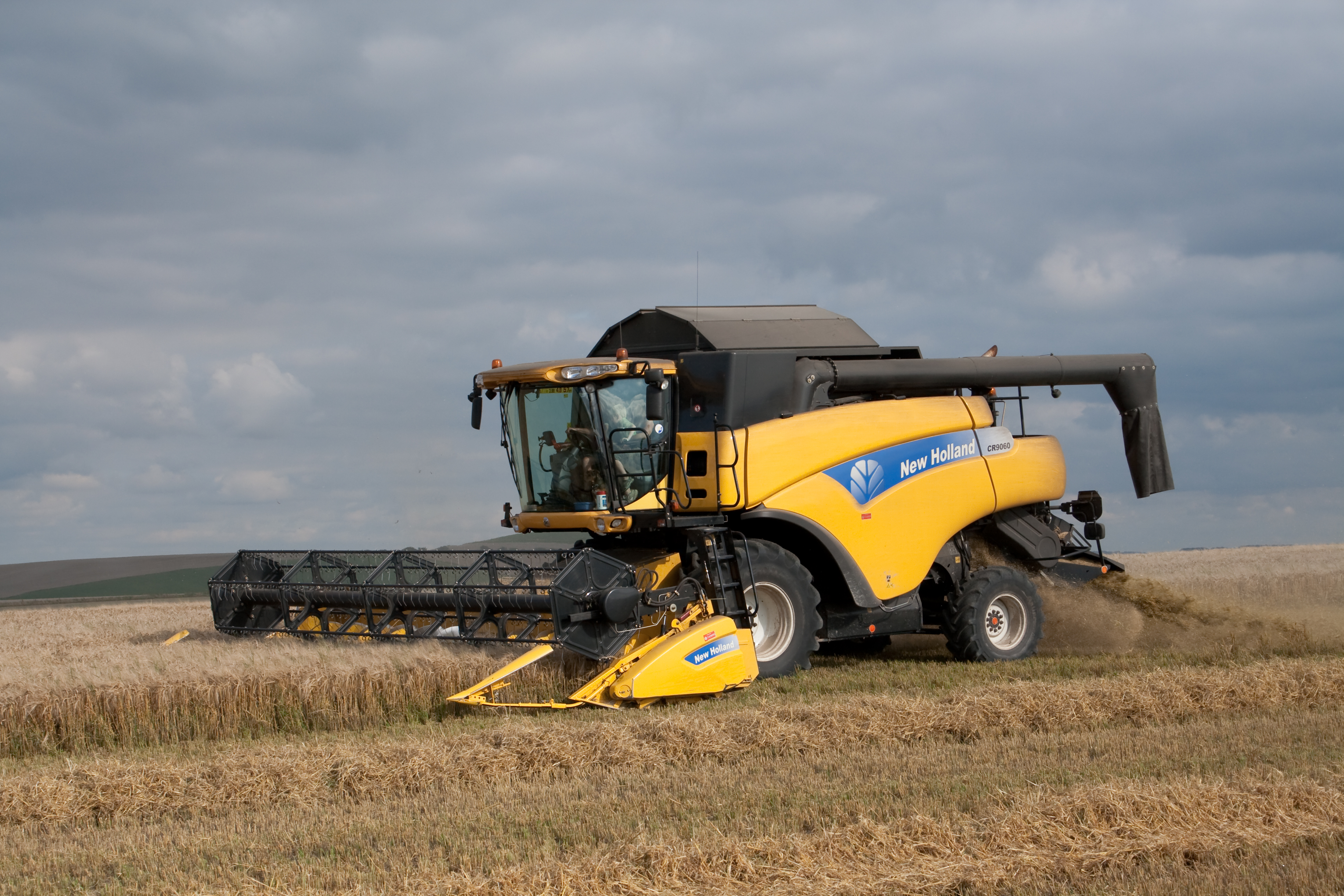 New Holland CR9060 combine harvester